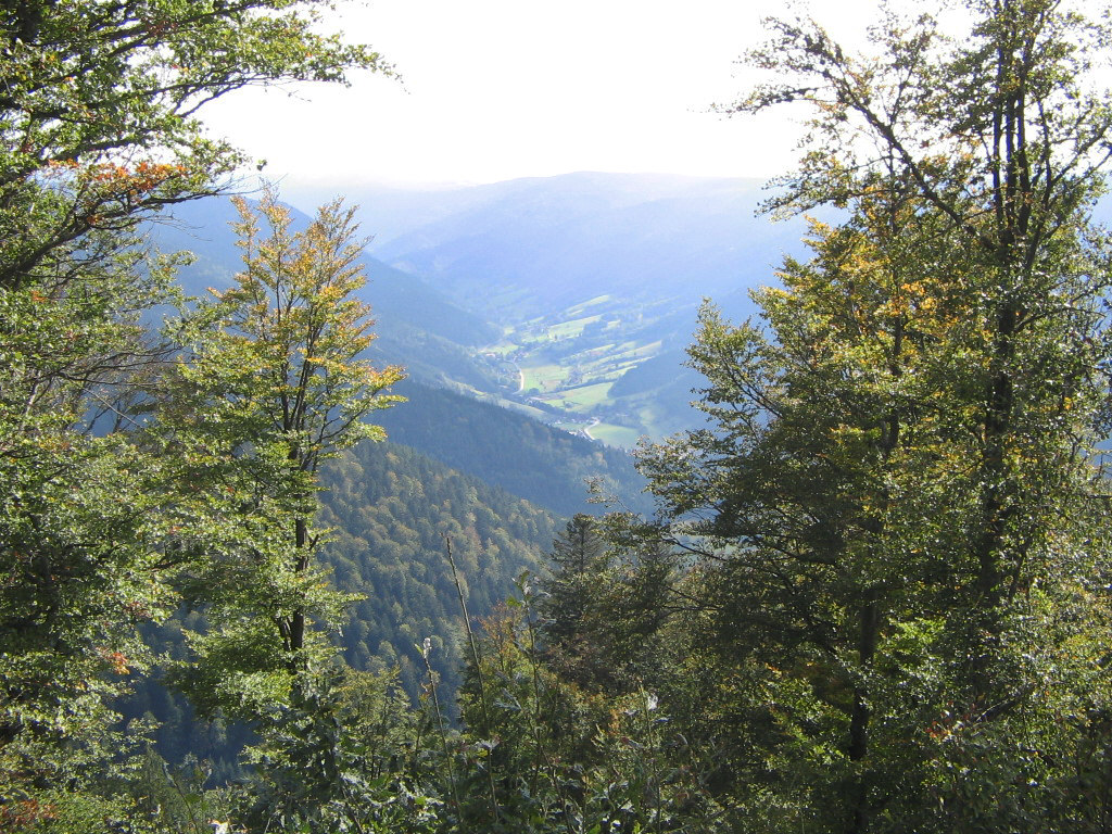 View from Schultiskopf onto Obersimonswald in the valley of the Wilde Gutach, Black Forest (Germany)